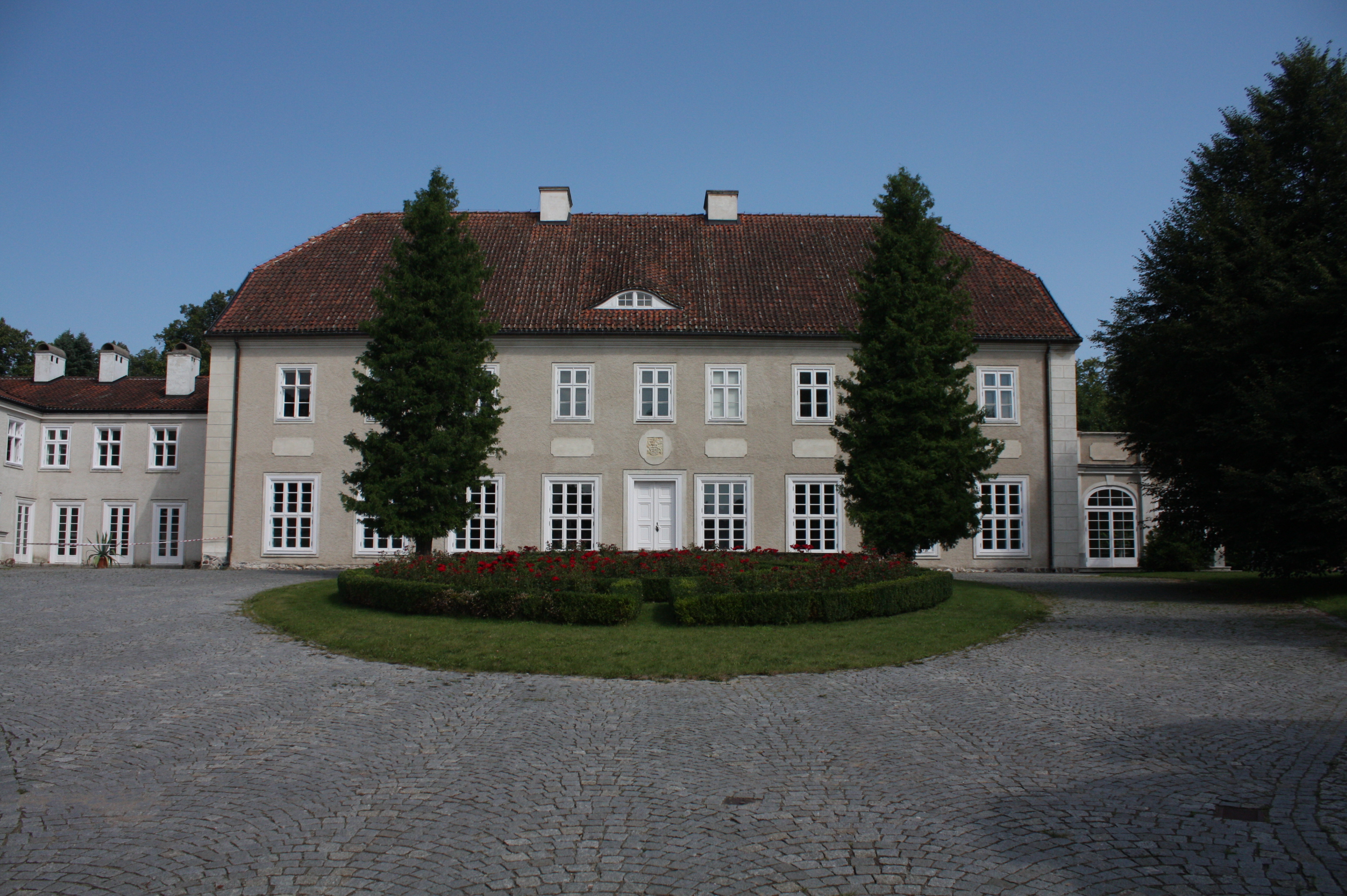 This photo of Warmian-Masurian Voivodeship was taken during Wikiexpedition 2012 set up by Wikimedia Polska Association. You can see all photographs in category Wikiekspedycja 2012. The making of this document was supported by Wikimedia Polska.